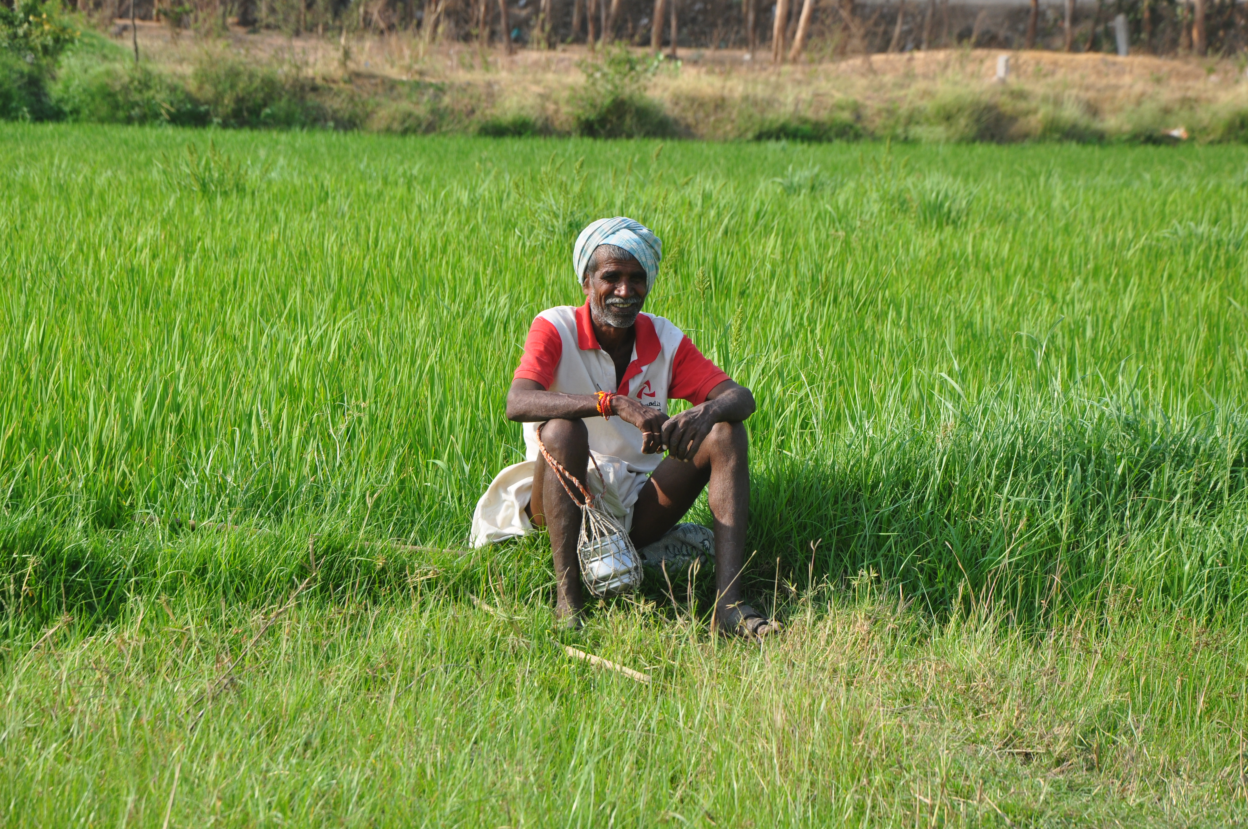 A happy farmer,the soul of India.